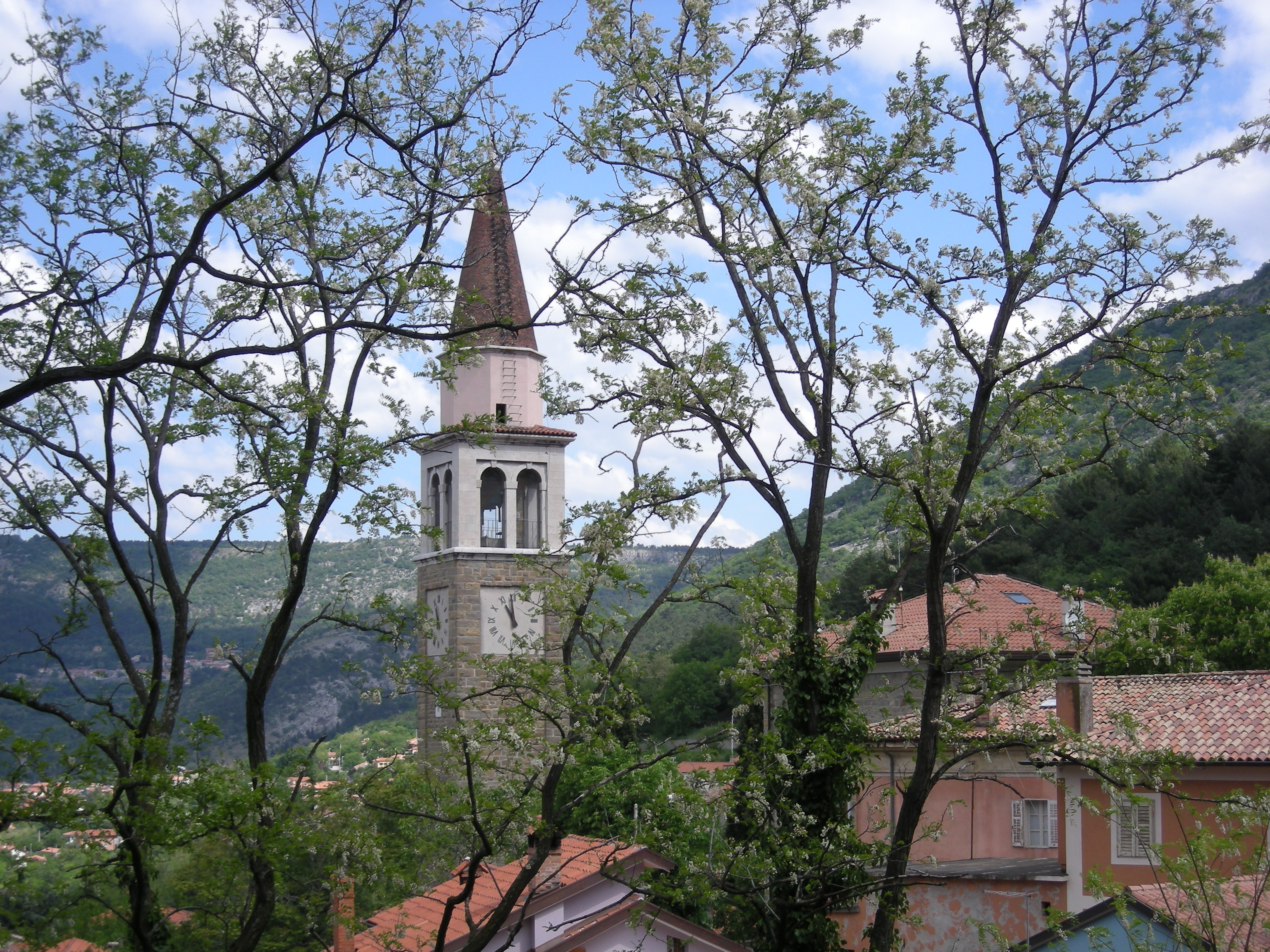 Dolina (San Dorligo della Valle) in Italy